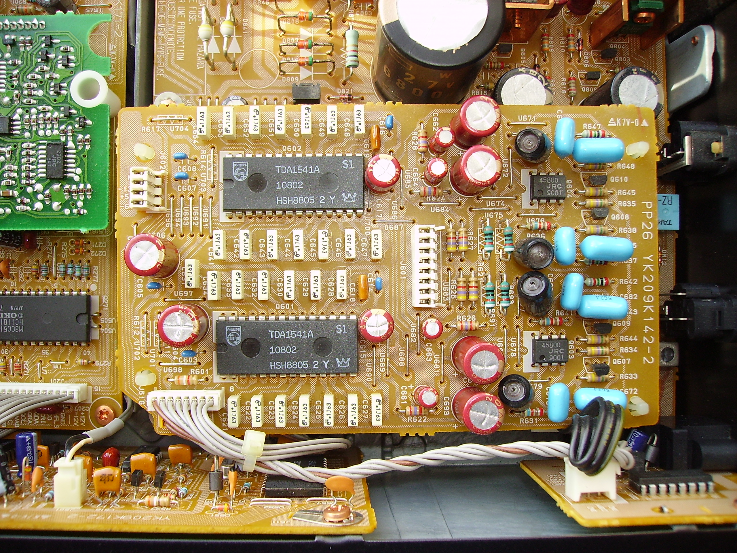 16-bit digital-to-analog converters (DAC) TDA1541A S1 by Philips. Unit: CD player Marantz CD-94MKII (year 1989). Oversampling factor = 4; push-pull configuration for the two audio channels.